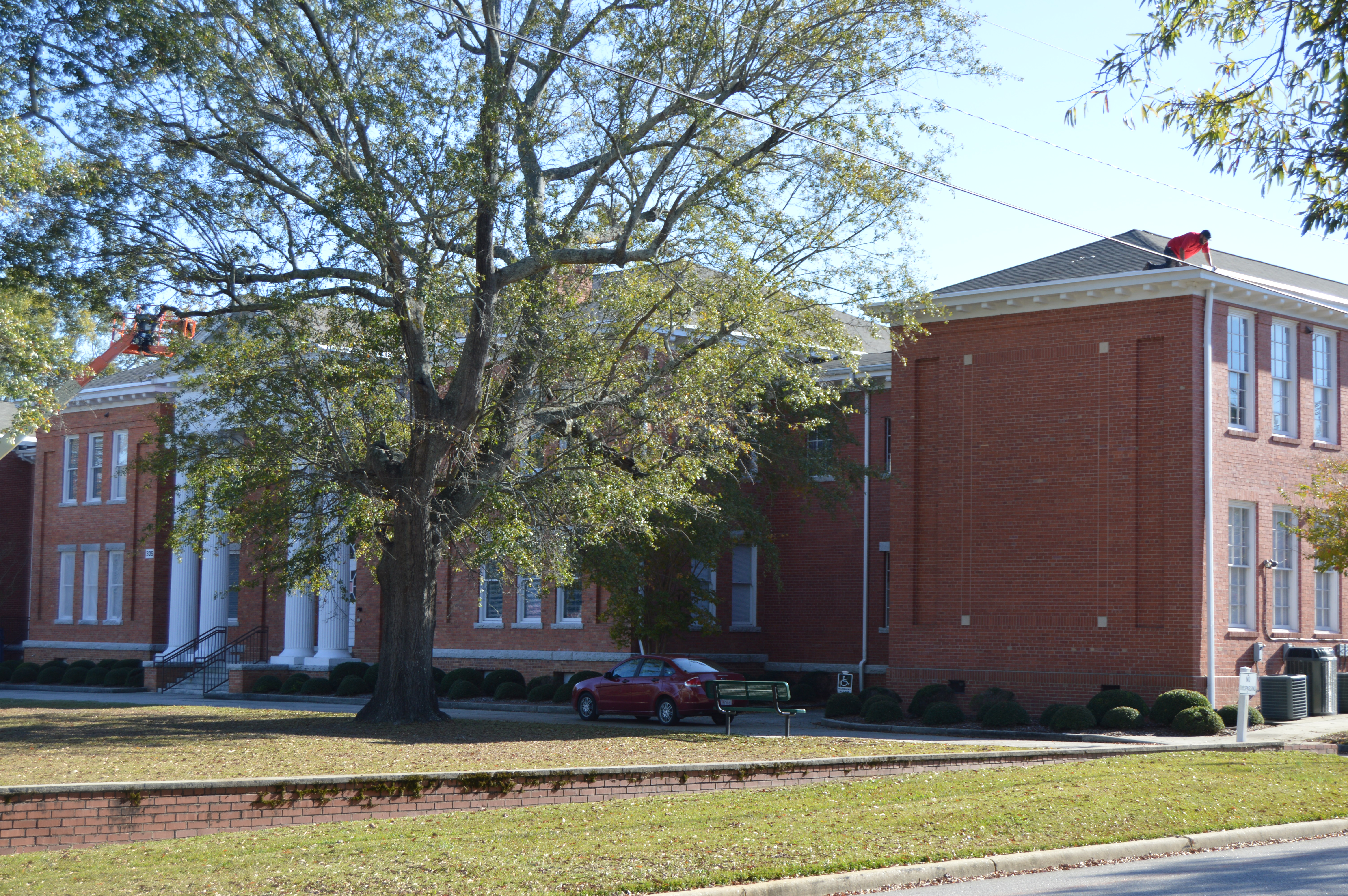 Front of the Laurinburg Central School (now the Central School Apartments), located at 303 McRae Street in Laurinburg, North Carolina, United States. Built in 1910, it is listed on the National Register of Historic Places.